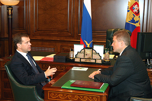 GORKI, MOSCOW REGION. With Governor of Kaliningrad Georgy Boos.